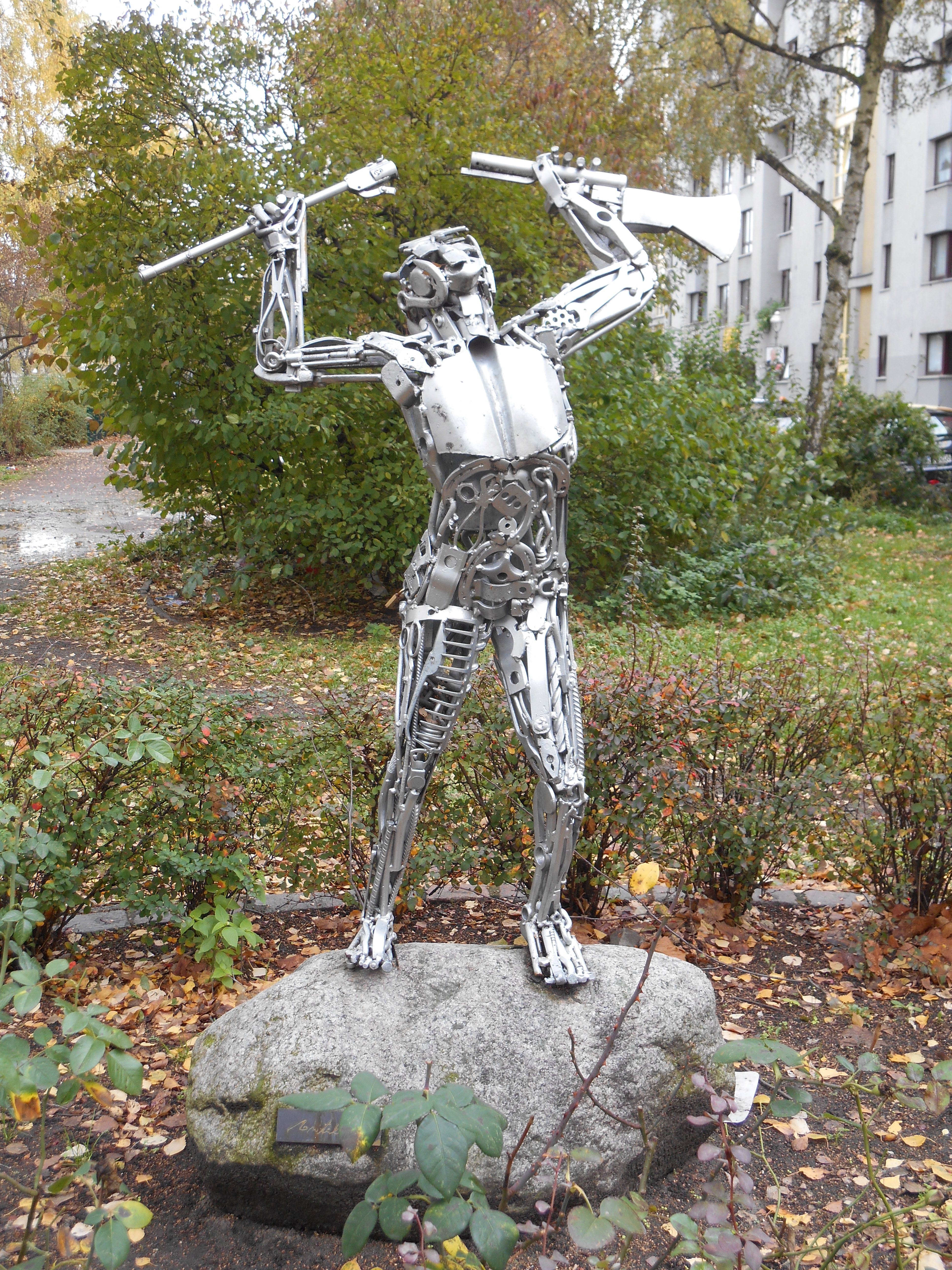 Sculpture "broken rifle" by Angelo Monitillo (born 1961 in Italy); vis a vis of Anti-Kriegs-Museum (anti-war-museum) in Berlin-Wedding in Berlin-Mitte, Berlin (Germany)